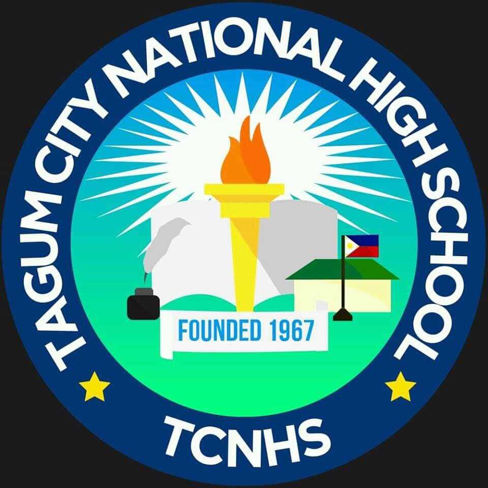 TCNHS LOGO